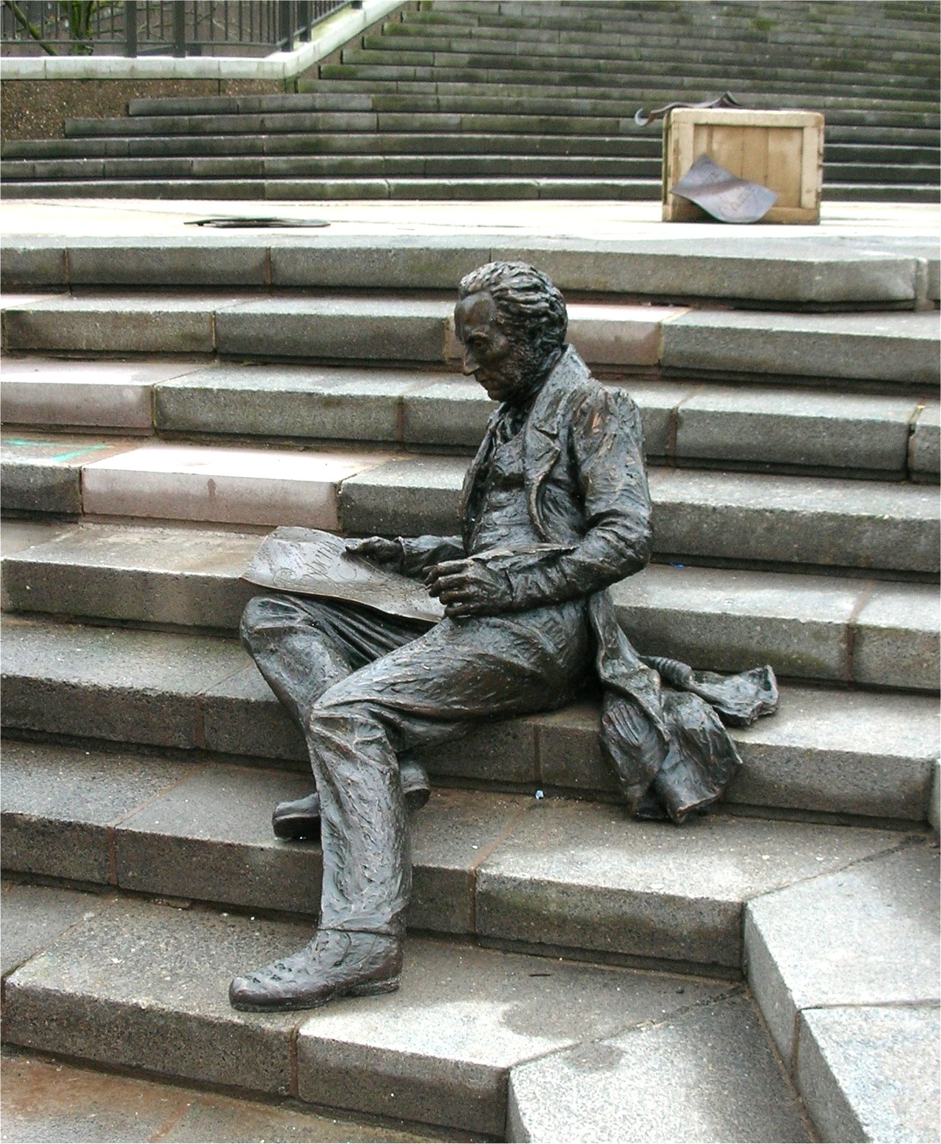 Bronze statue of Thomas Attwood by Sioban Coppinger and Fiona Peever 1993, seated on the steps in Chamberlain Square in Birmingham, England. The box-like object in the background is part of the sculpture and depicts an empty plinth with bronze pages scattered upon it and the ground. Photographed by me 27 February 2007. Oosoom